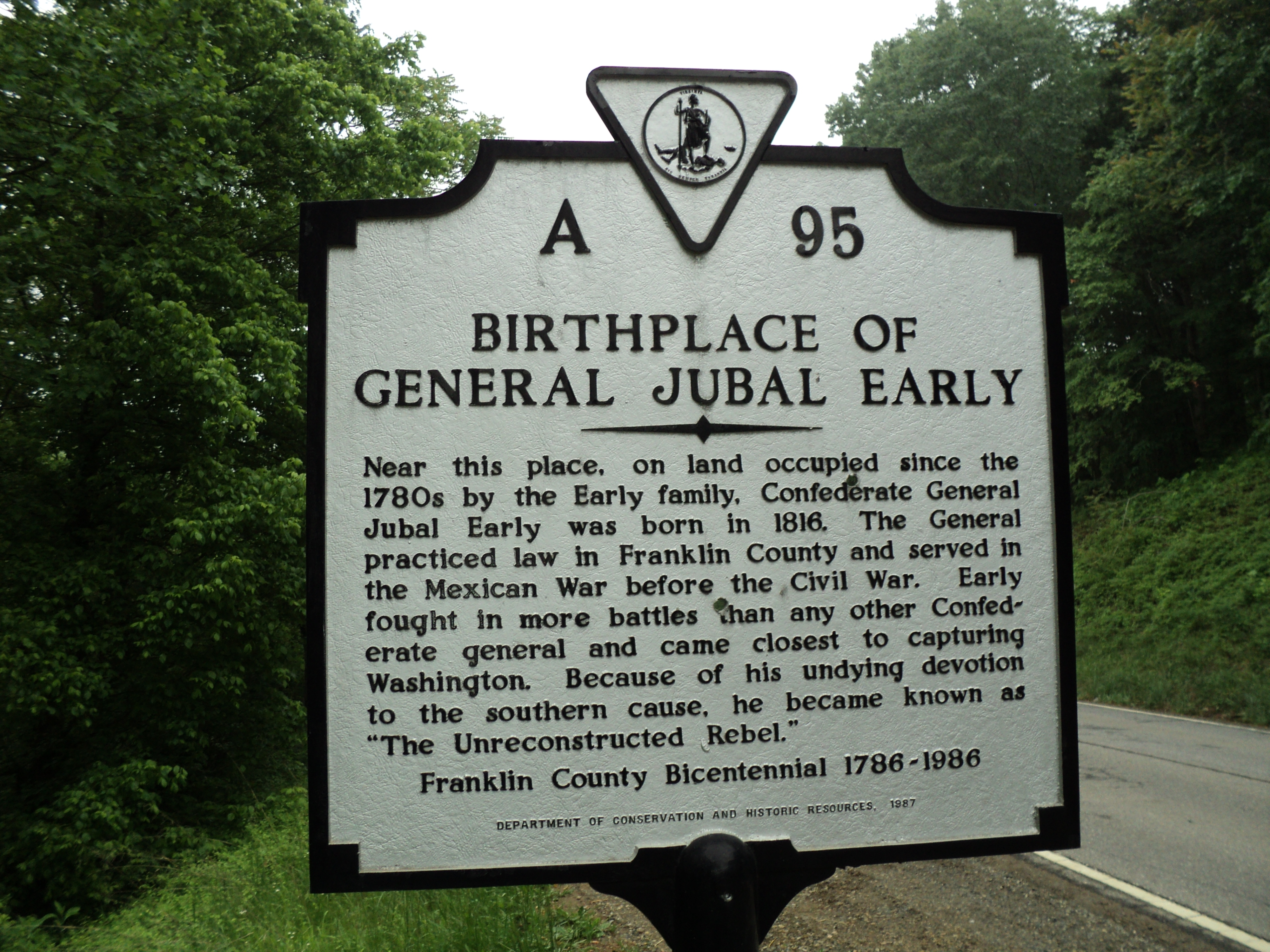 Virginia state historic marker for the "Birthplace of General Jubal Early," Jubal Anderson Early Highway, Franklin County, Virginia.